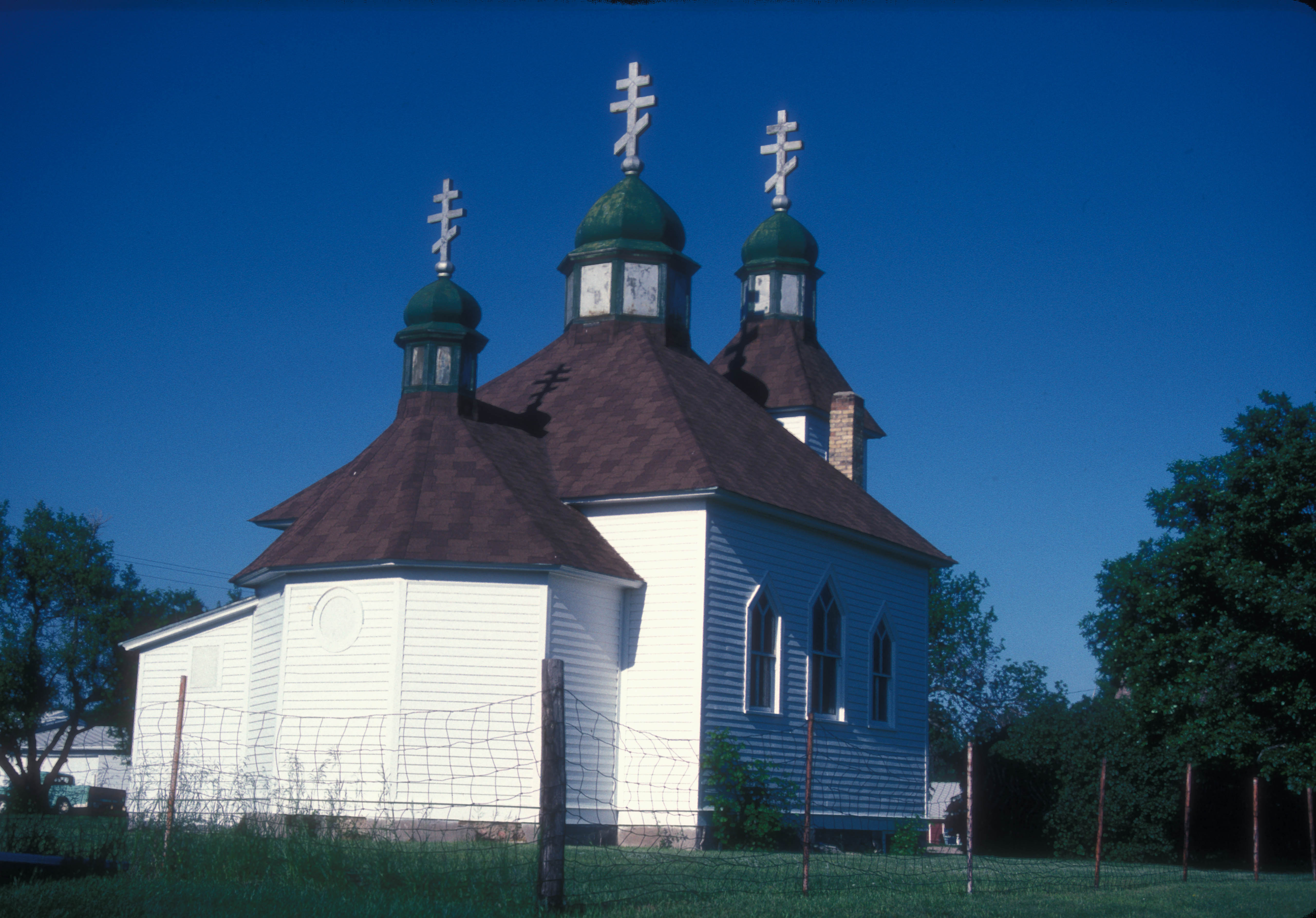 BUILT BY THE UKRAINIANS WHO FLED FROM RUSSIA IN SEARCH OF FREEDOM LONG BEFORE THE COMMUNIST REVOLUTION. THE CHURCH WAS BUILT CIRCA 1913